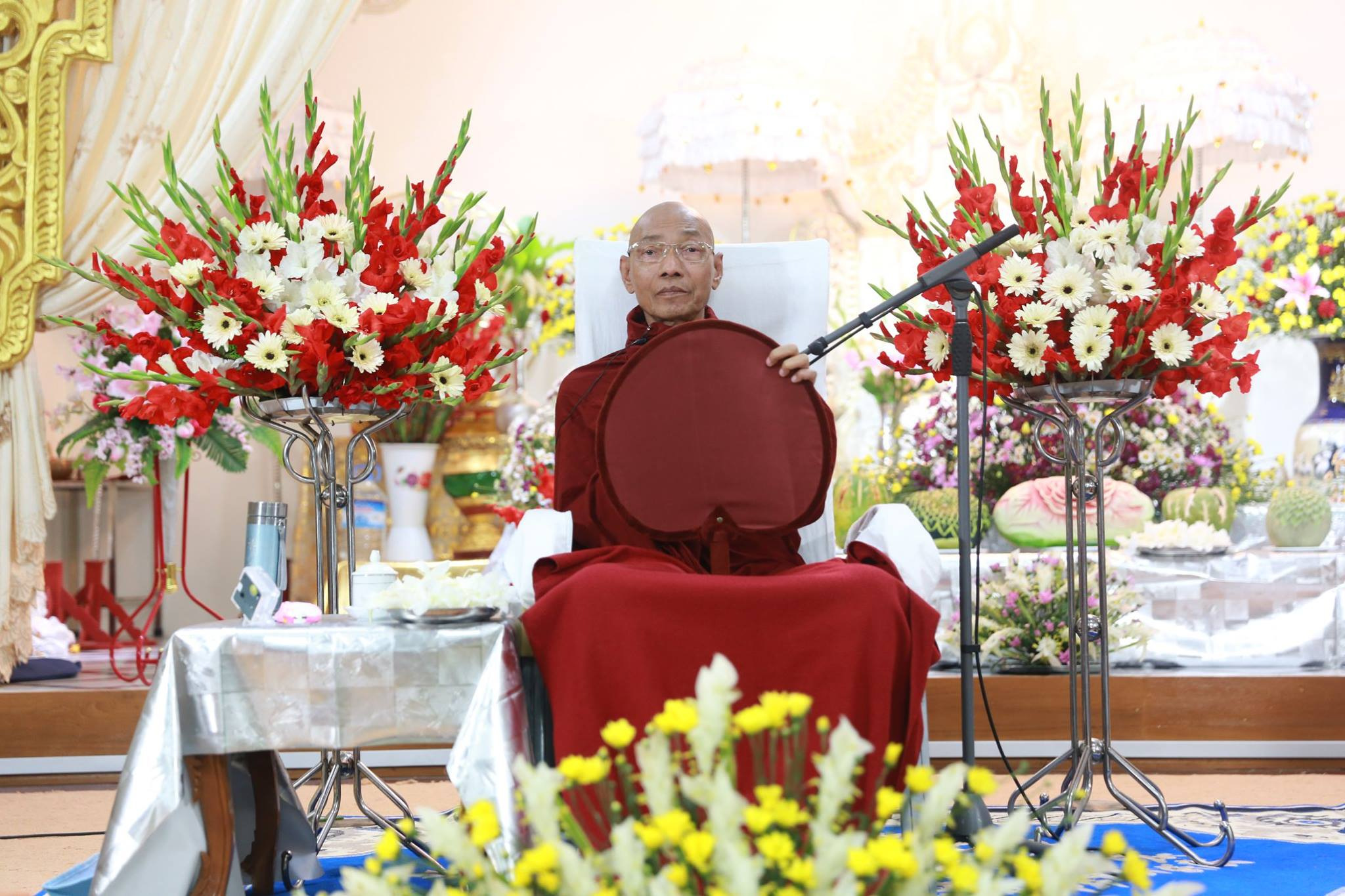 Sayadaw Nandamala